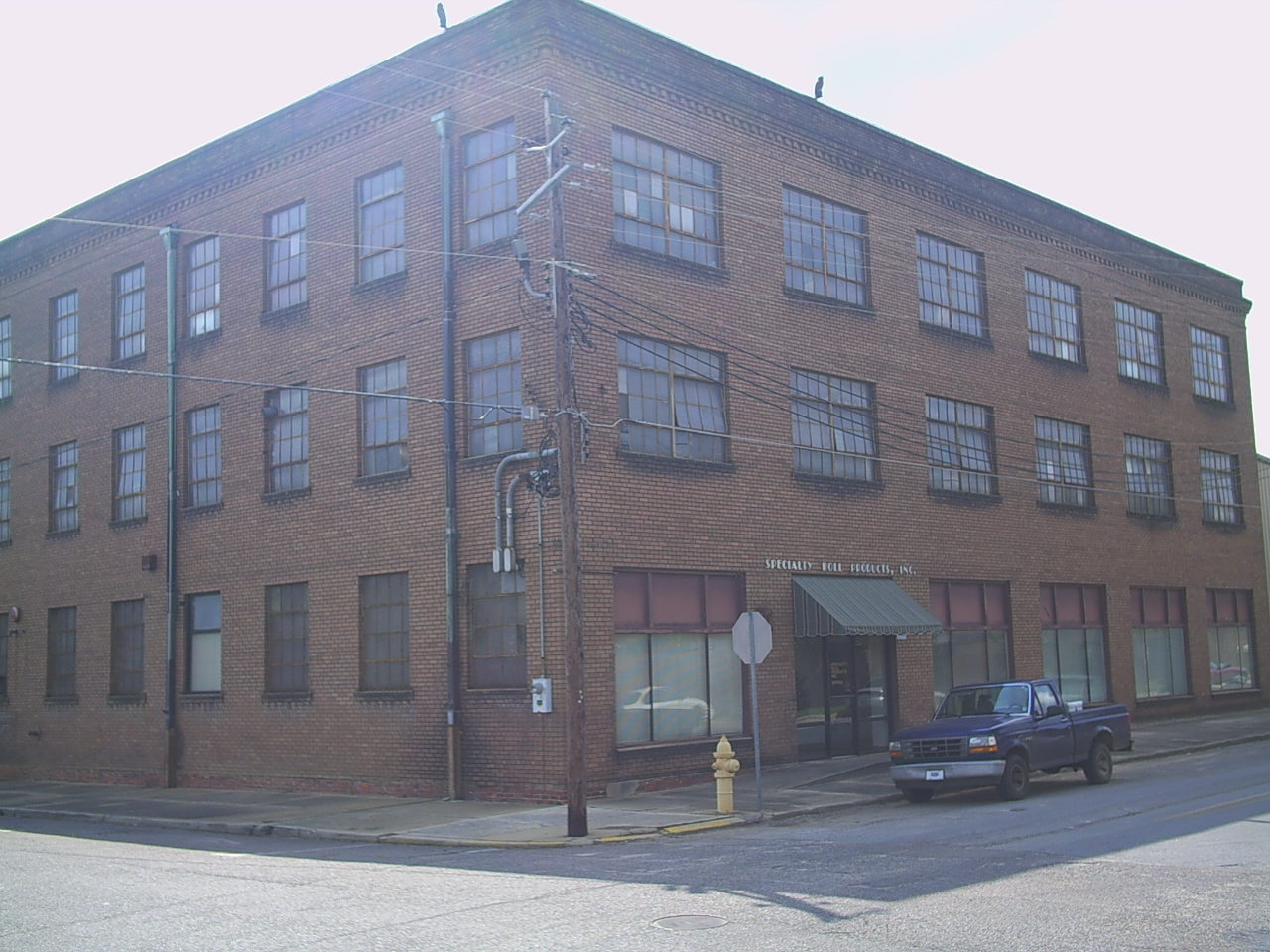 The Old Standard Drug Company in Meridian, Mississippi. The building is now home to Specialty Roll Products, Inc.